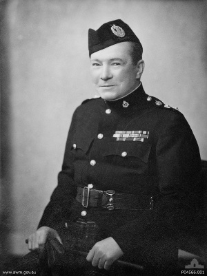 Lieutenant Colonel Donald Cameron, VD, in the Scottish dress uniform of the 61st Battalion (Queensland Cameron Highlanders), c. 1938.